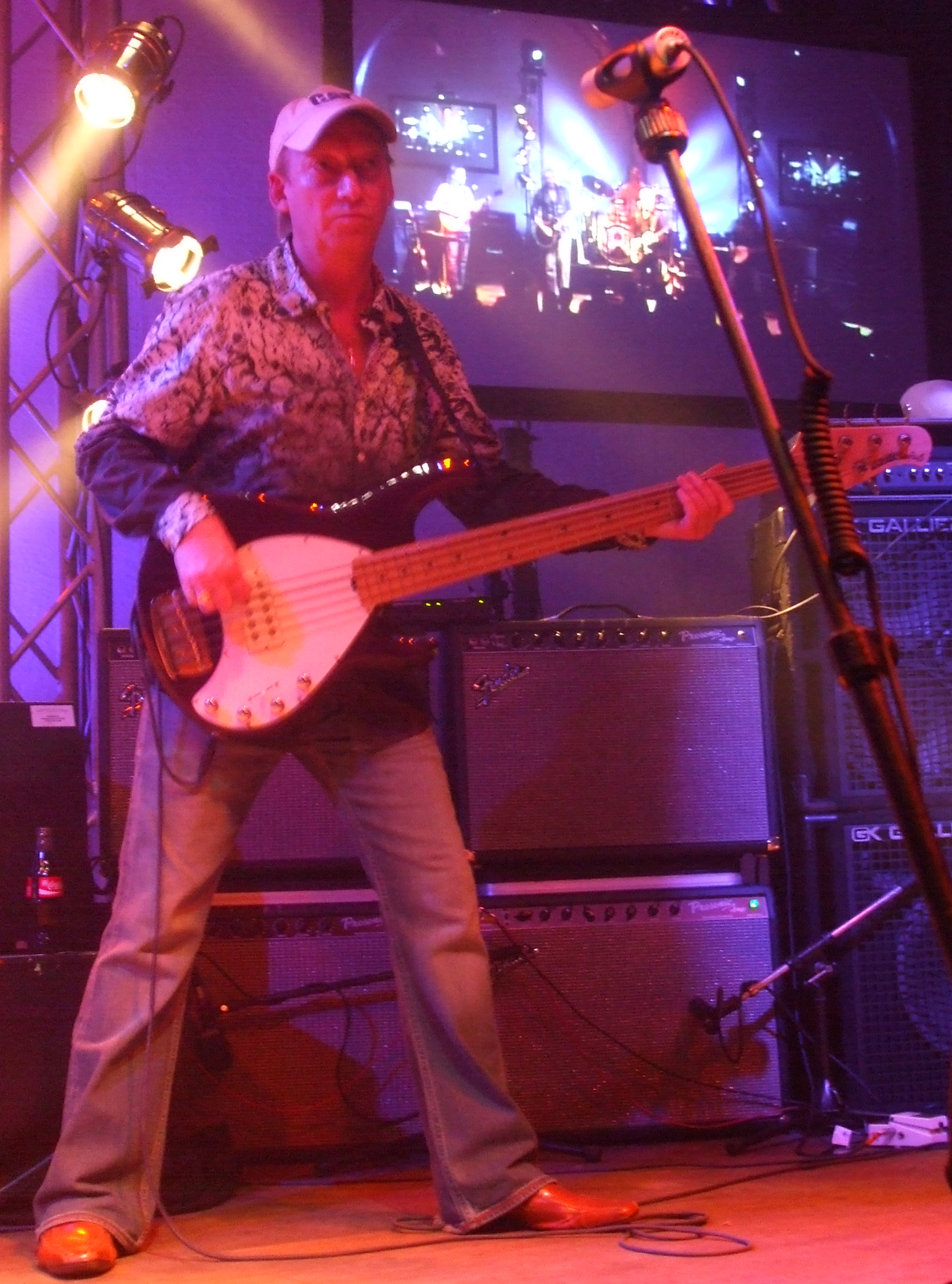 Bob Skeat on Tour with Wishbone Ash, 2009-30-01 Paderborn Germany